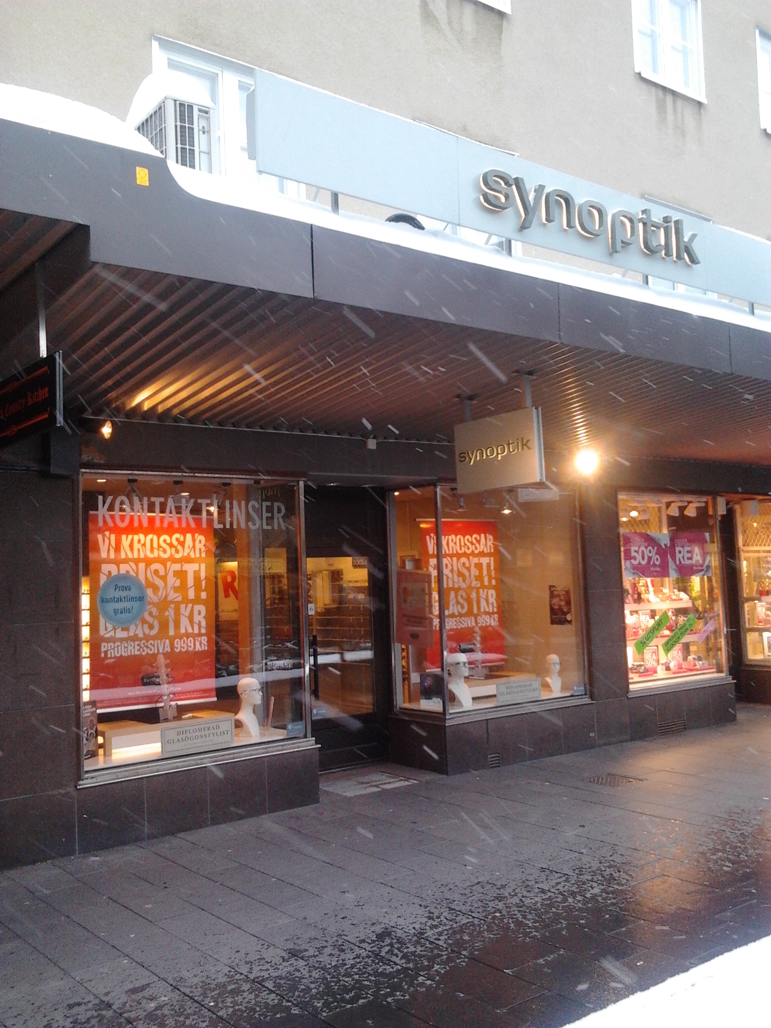 Optics store "Synoptik" in Umeå, Sweden.